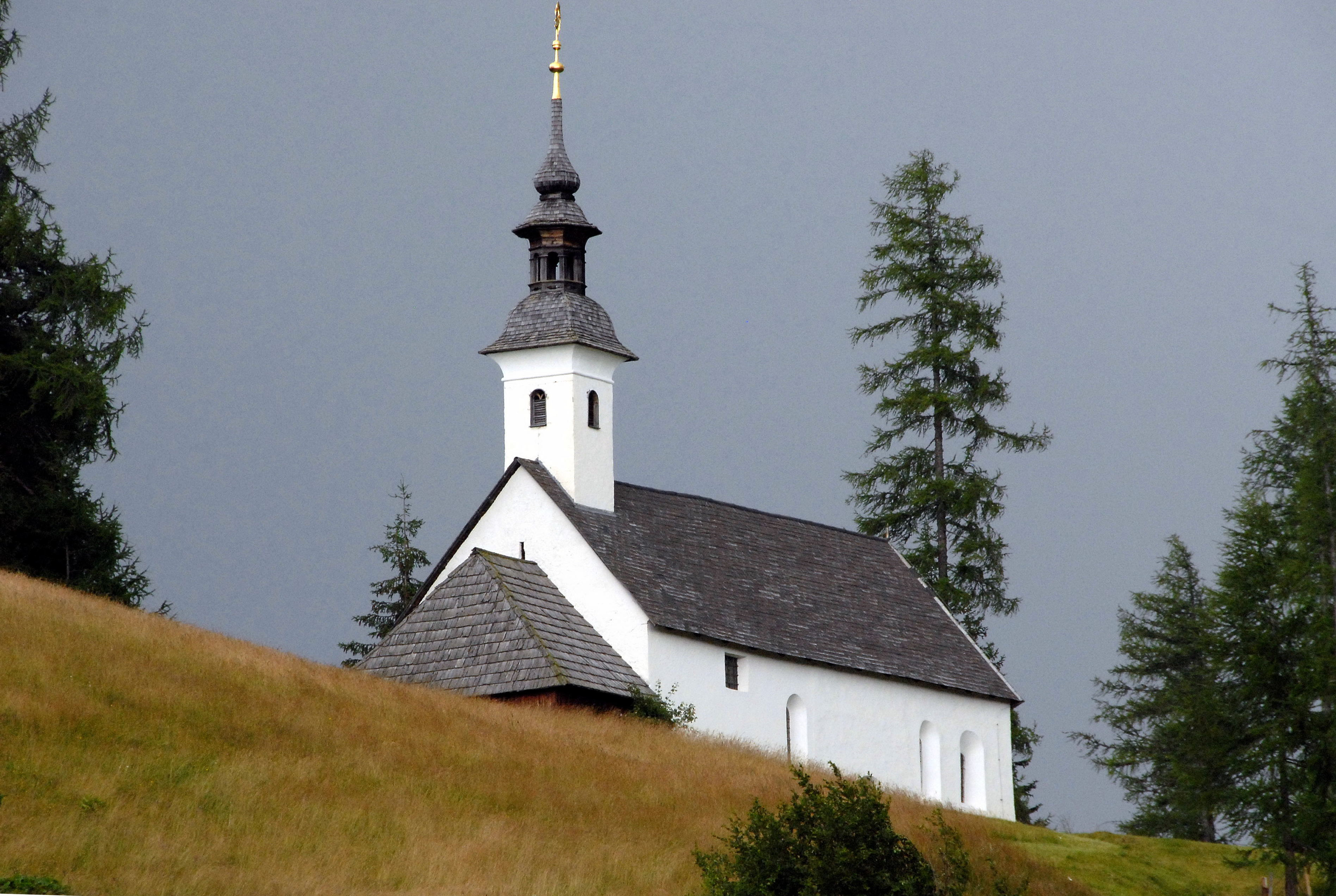 Subsidiary church Holy Anna close to the mountain village Saint Lorenzen, municipality Reichenau, district Feldkirchen, Carinthia / Austria / EU